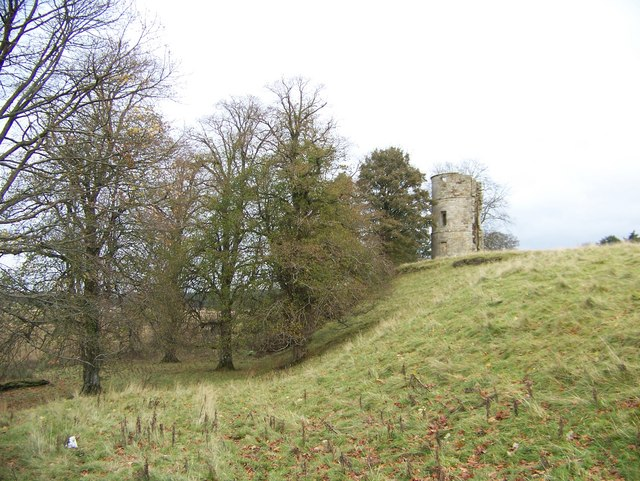 The remains of the 13th century Douglas Castle This ruin is also known as "Castle Dangerous" because it was this castle and actions of Sir James Douglas in 1304 that inspired Sir Walter Scott's book "Castle Dangerous"